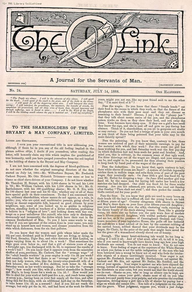 The frontcover of the newspaper «The Link. A Journal for the Servants of Man» by Annie Besant from 14 July 1888.